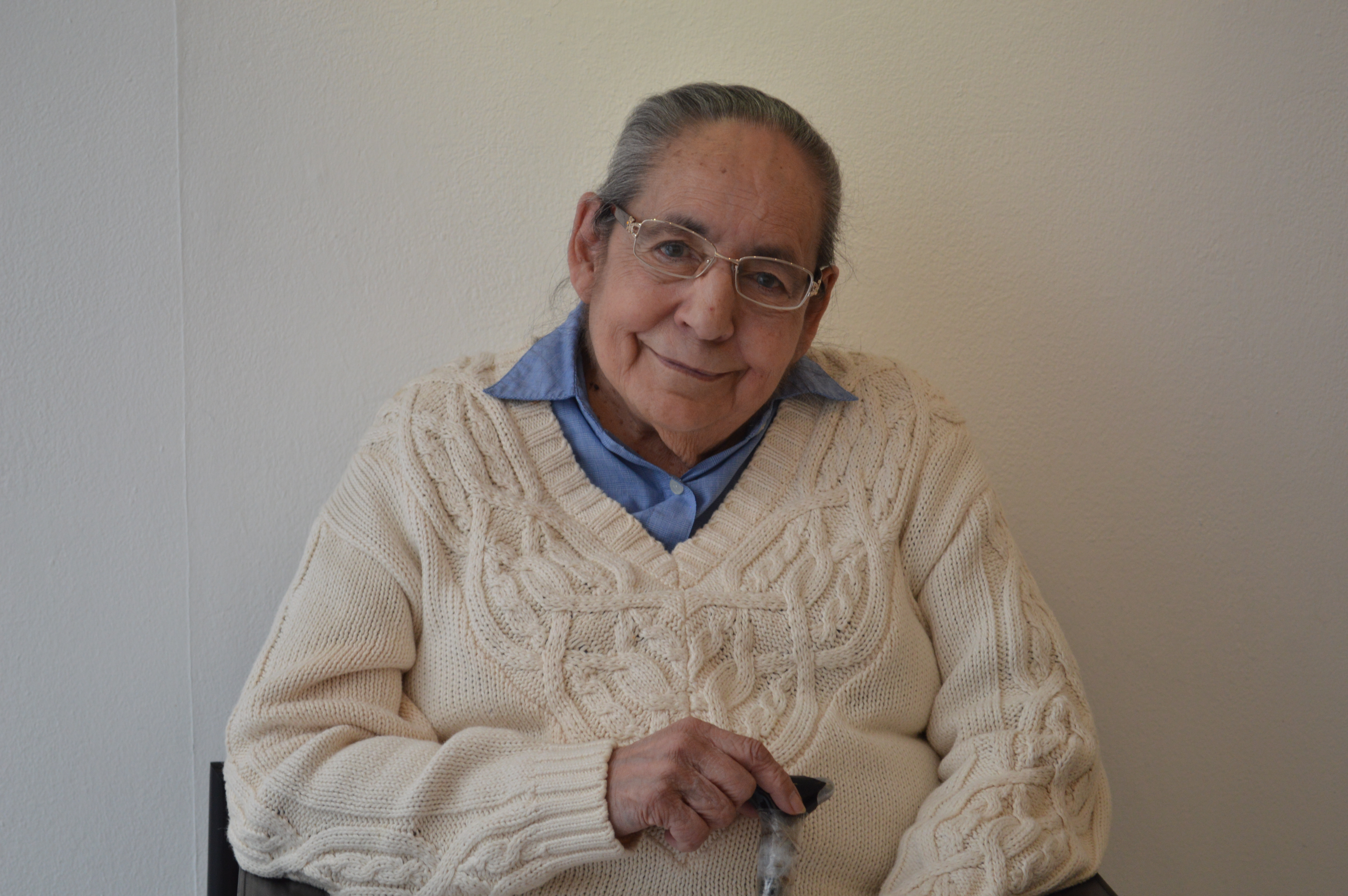 Photographic study of graphic artist Sarah Jimenez by uploader at the Salón de la Plástica Mexicana in Mexico City